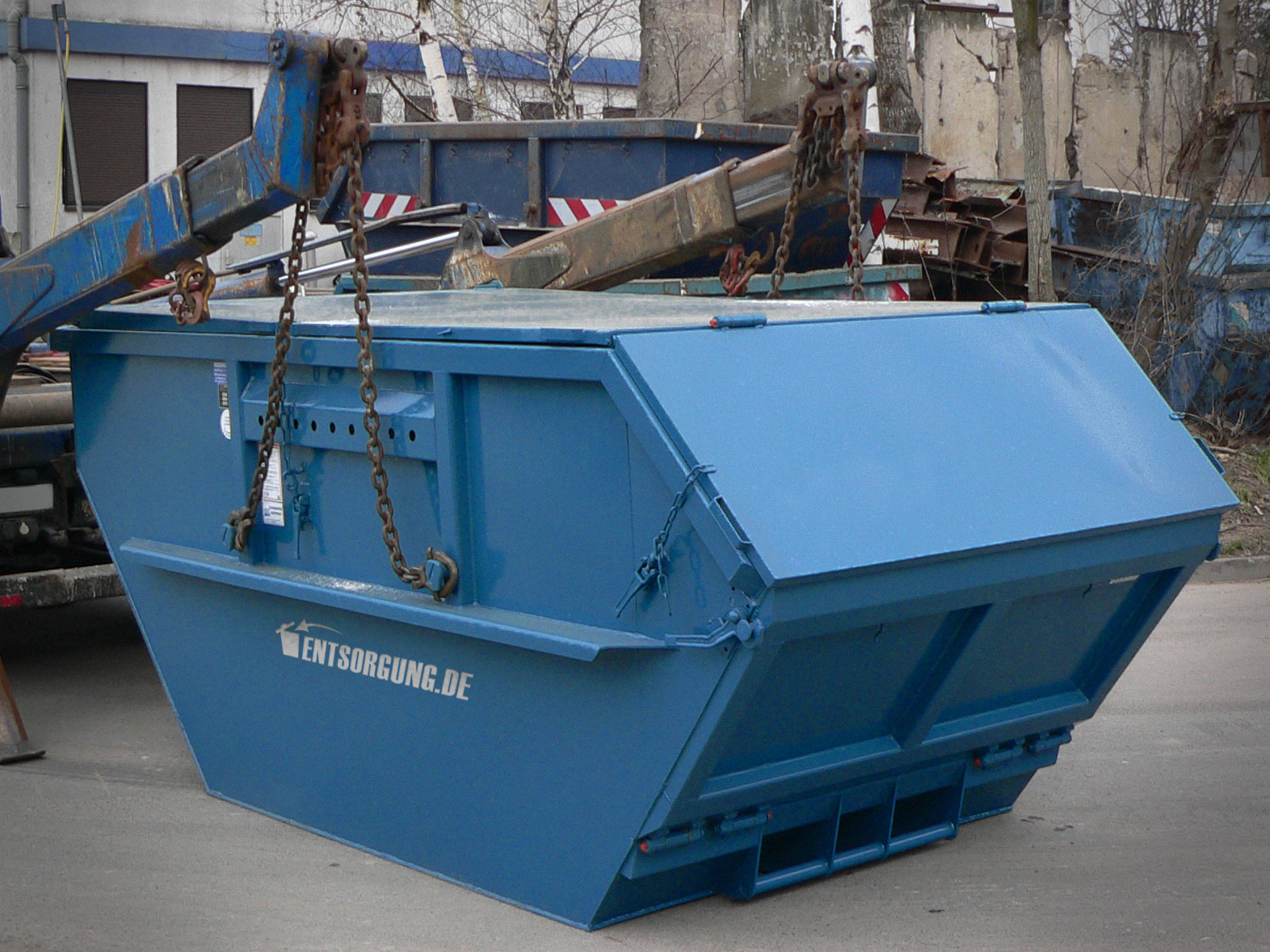 Waste container